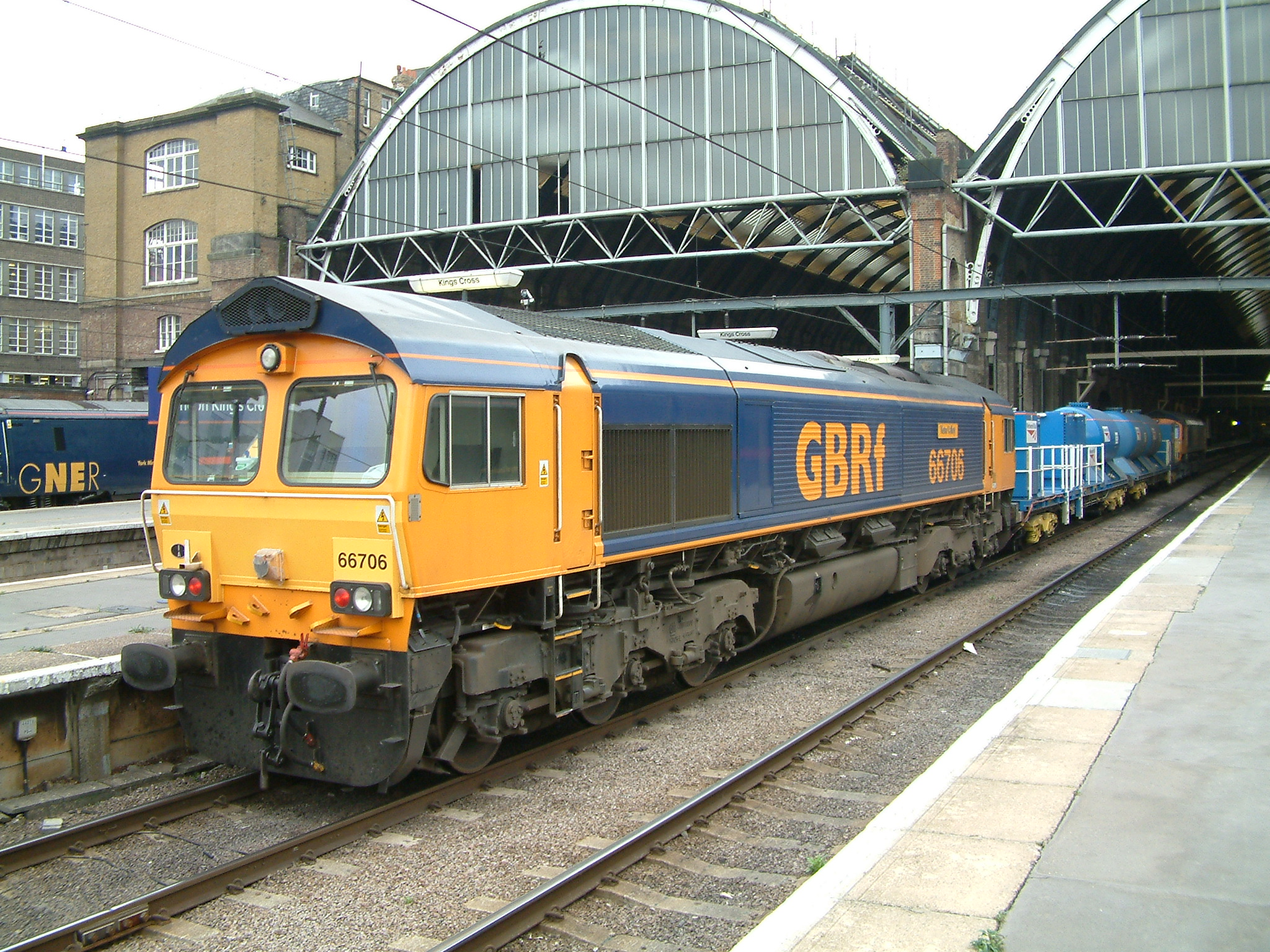 GBRf 66706 at Kings Cross